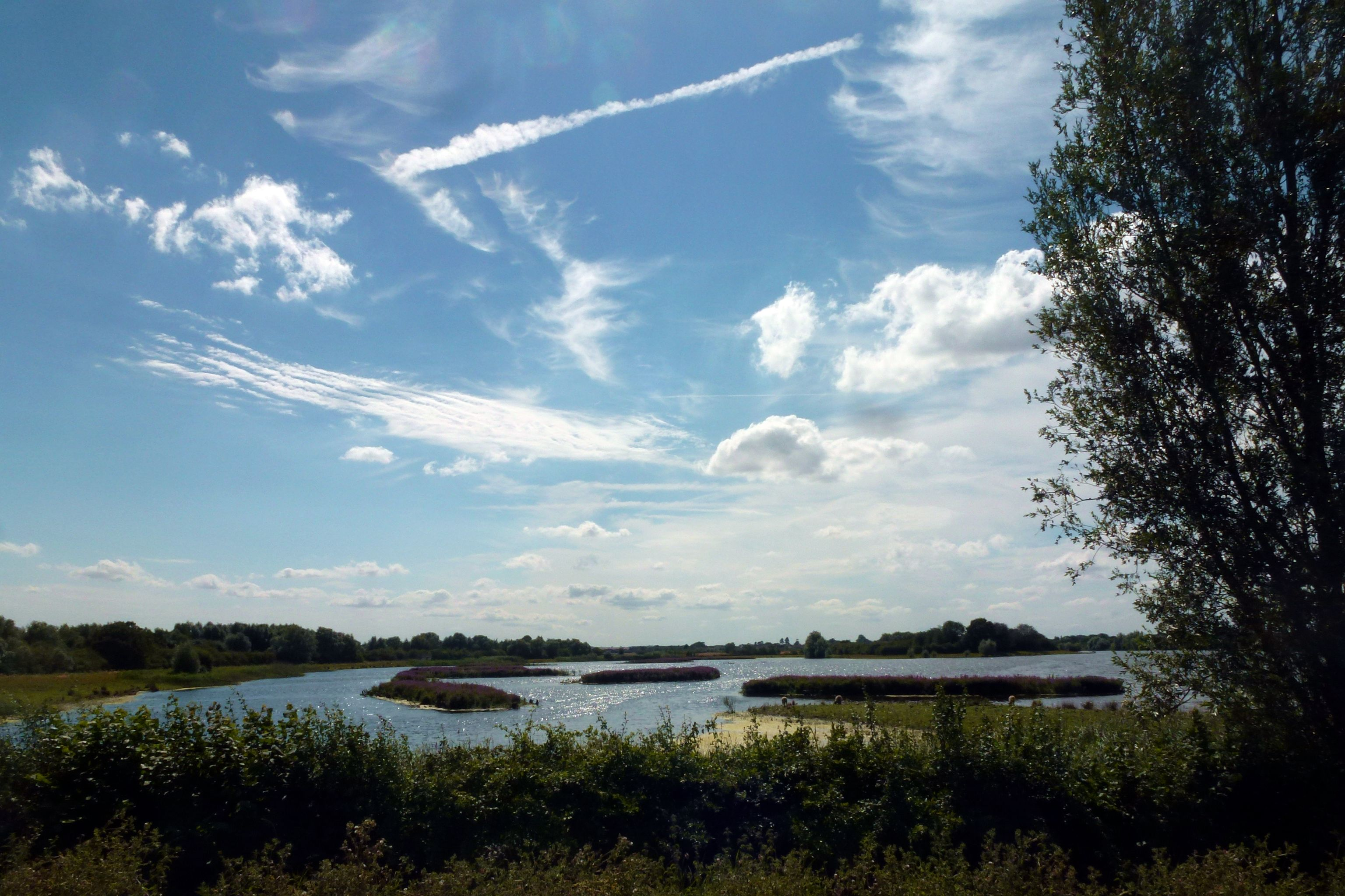 A lake at Fen Drayton Nature Reserve.